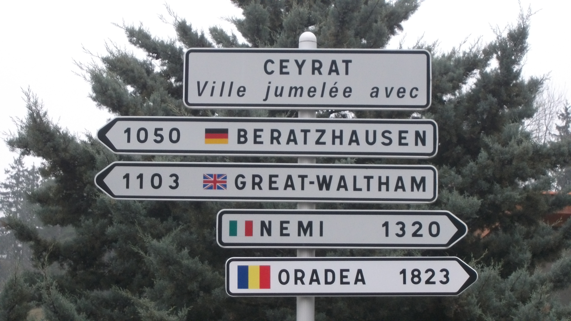 Directional road signs which indicates twin cities with Ceyrat (Beratzhausen, Great Waltham, Nemi and Oradea).